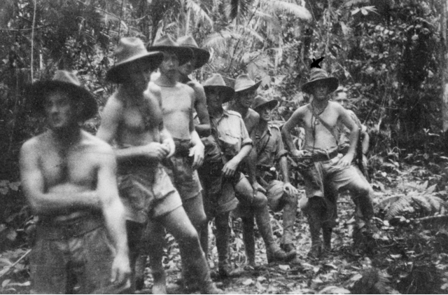 BULWA, BULOLO VALLEY, NEW GUINEA, 1942-05. A SECTION OF C PLATOON, 2/5TH INDEPENDENT COMPANY, ON AN EXERCISE WALK ALONG A JUNGLE TRACK, WEST OF BULWA IN THE BULOLO VALLEY. (ID number 099999)